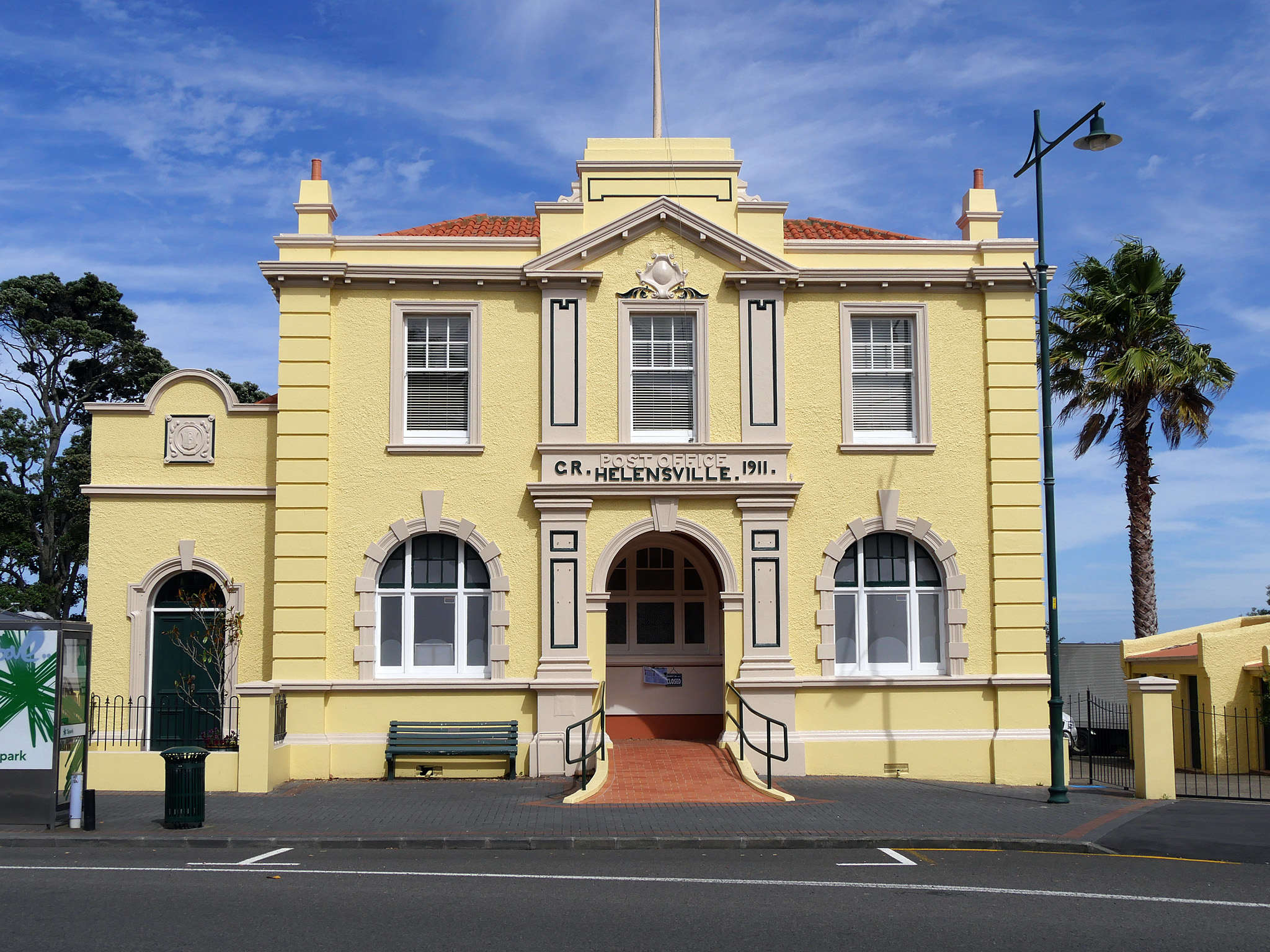 Post Office (former), Helensville, Auckland Councile, North Island, New Zealand